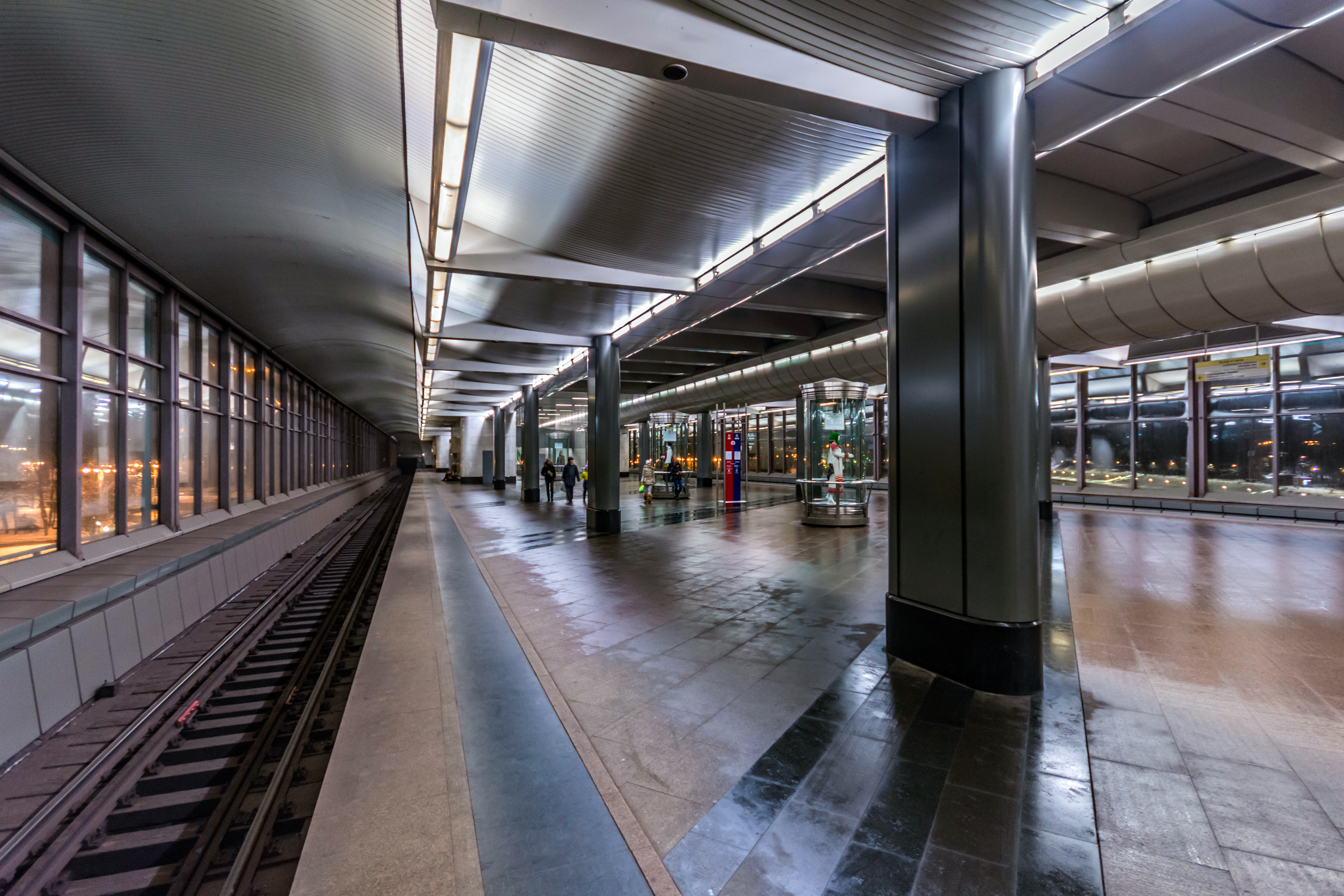 Vorobyovy Gory Station of Moscow Subway